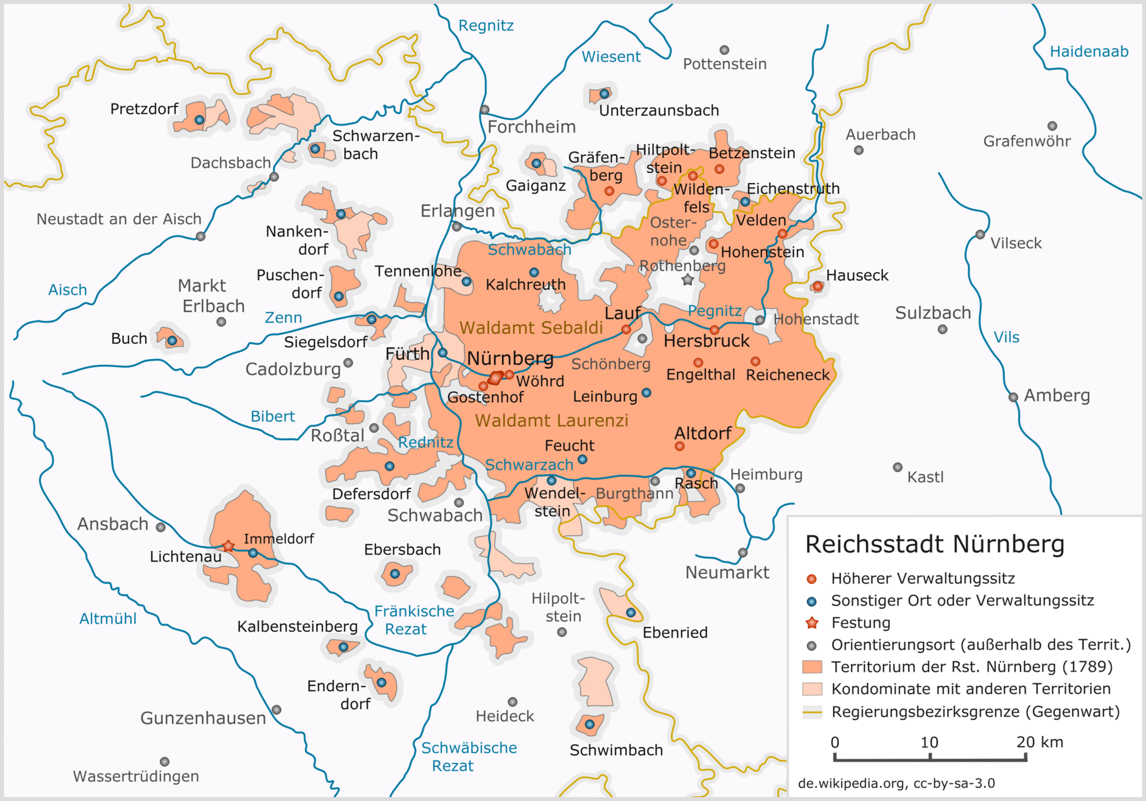 Imperial City of Nuremberg